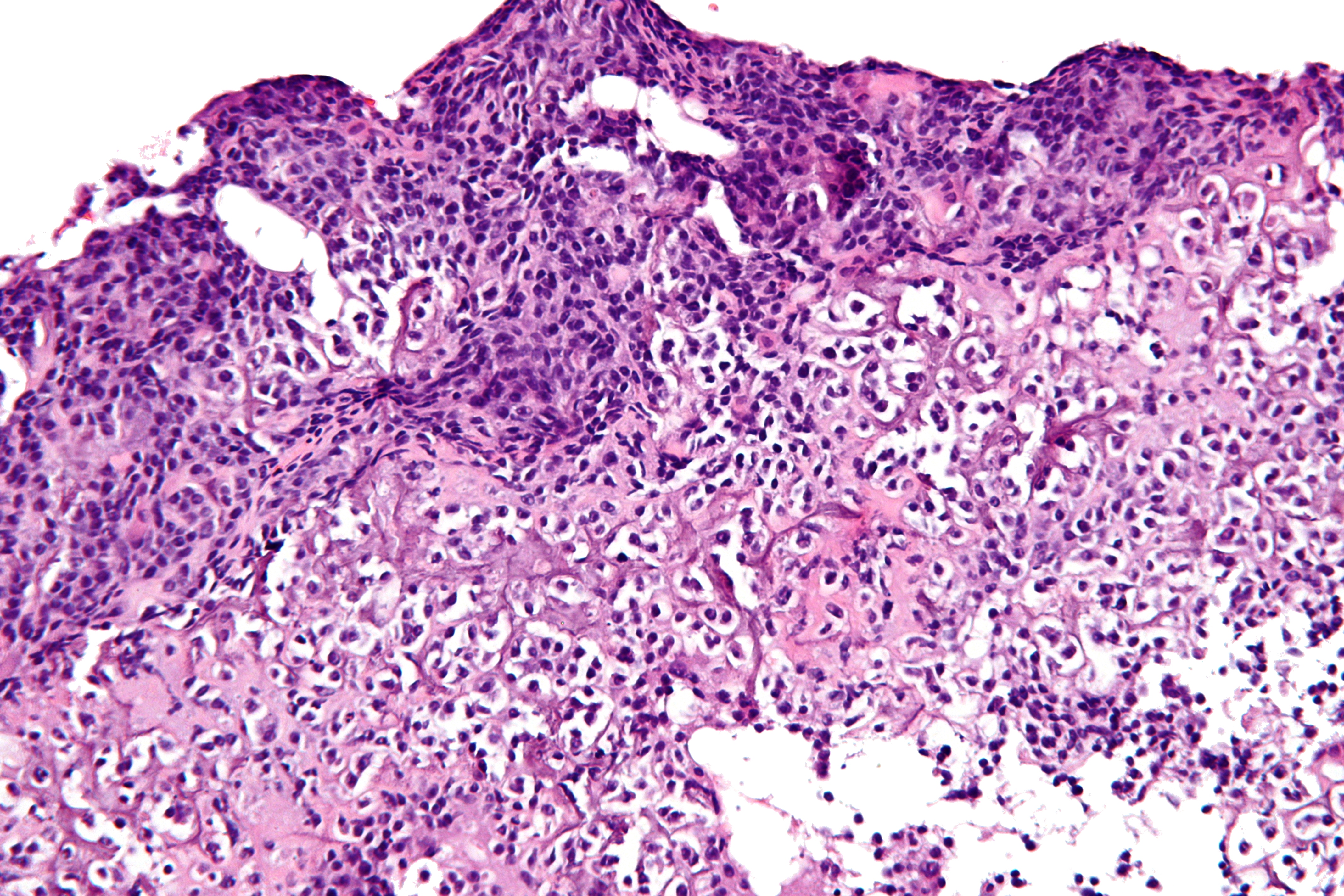 High magnification micrograph of small cell osteosarcoma. H&E stain. Small cell osteosarcoma, like other osteosarcomas has osteoid, the extracellular organic component of bone. On H&E stained sections, osteoid has a pink, homogeneous appearance and surrounds osteoblasts or osteosarcoma cells. Related images Intermed. mag. High mag. Very high mag. Another case of osteosarcoma Low mag. Intermed. mag. High mag. Very high mag.